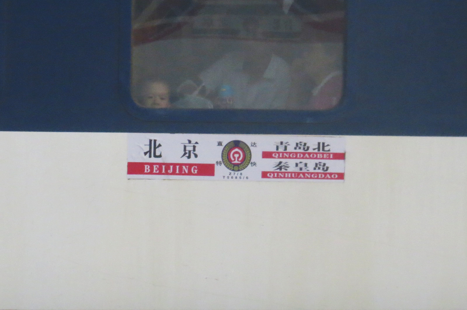 Thanks to Song Xiude, Qingdao revised its overnight train! Crowded T5685 to Qinhuangdao.